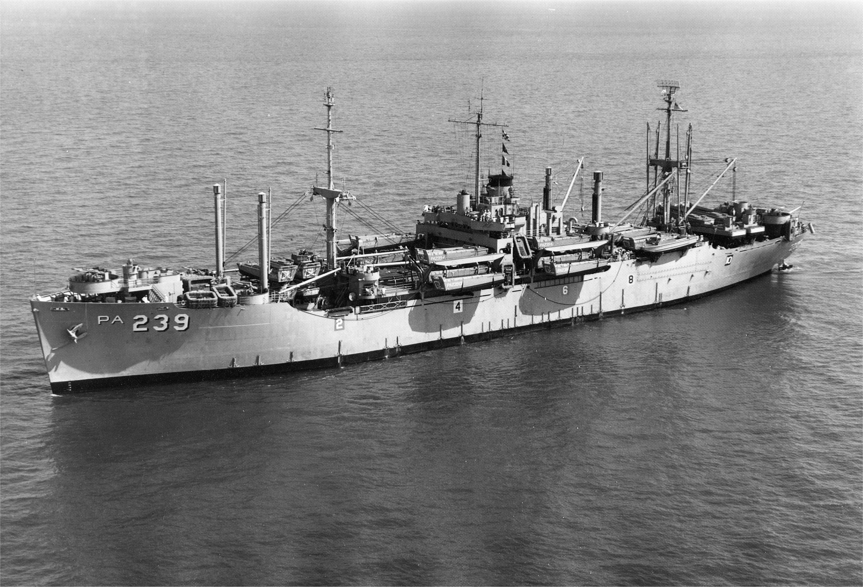 Glynn (APA-239) at anchor, circa 1950s, location unknown.